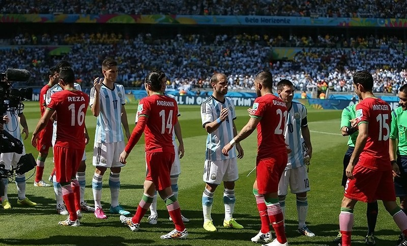 Iran and Argentina national football teams match, 2014 FIFA World Cup Group F